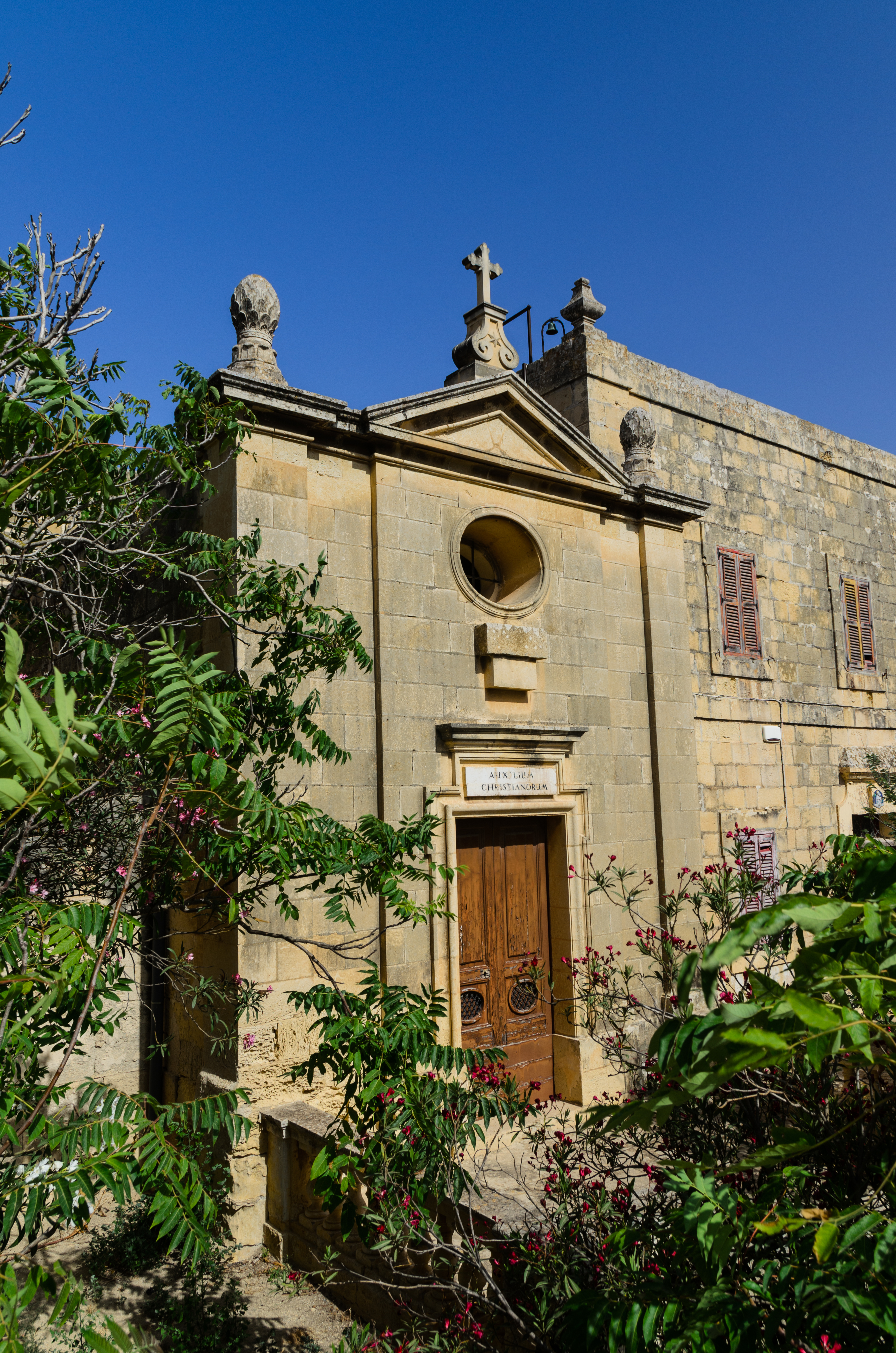 Our Lady Help of Christians Chapel in Birżebbuġa, Malta